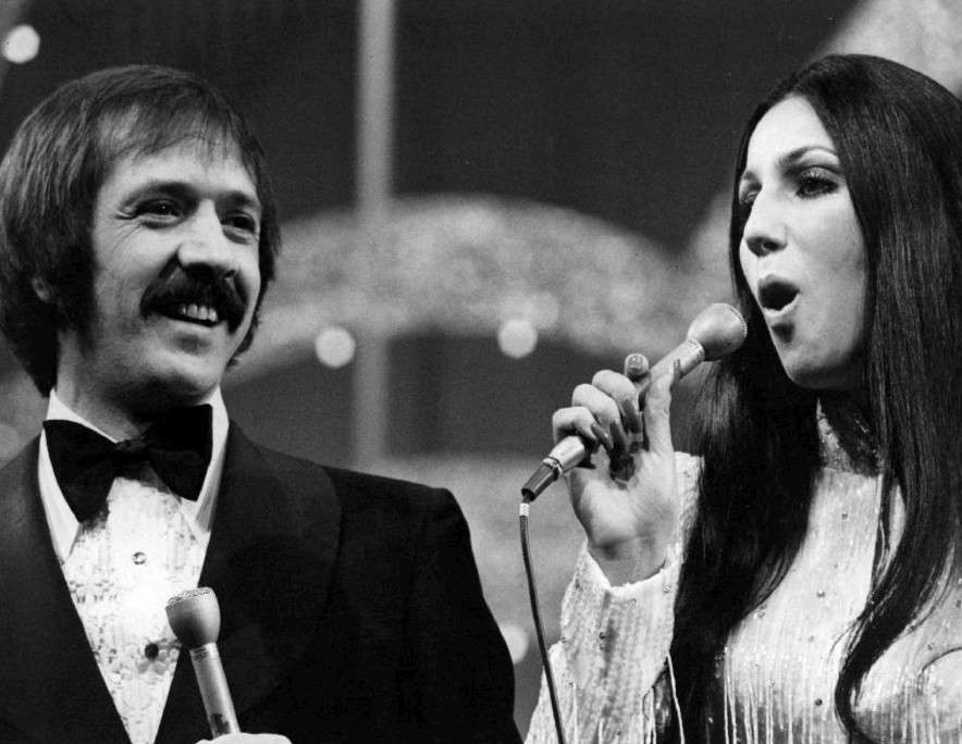 Photo of Sonny and Cher from the television special Entertainer of the Year.